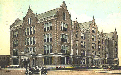 Postcard of Bay Ridge High School, 350 67th Street, Bay Ridge Brooklyn, New York 11220, looking west across 4th Avenue and 67th Street.